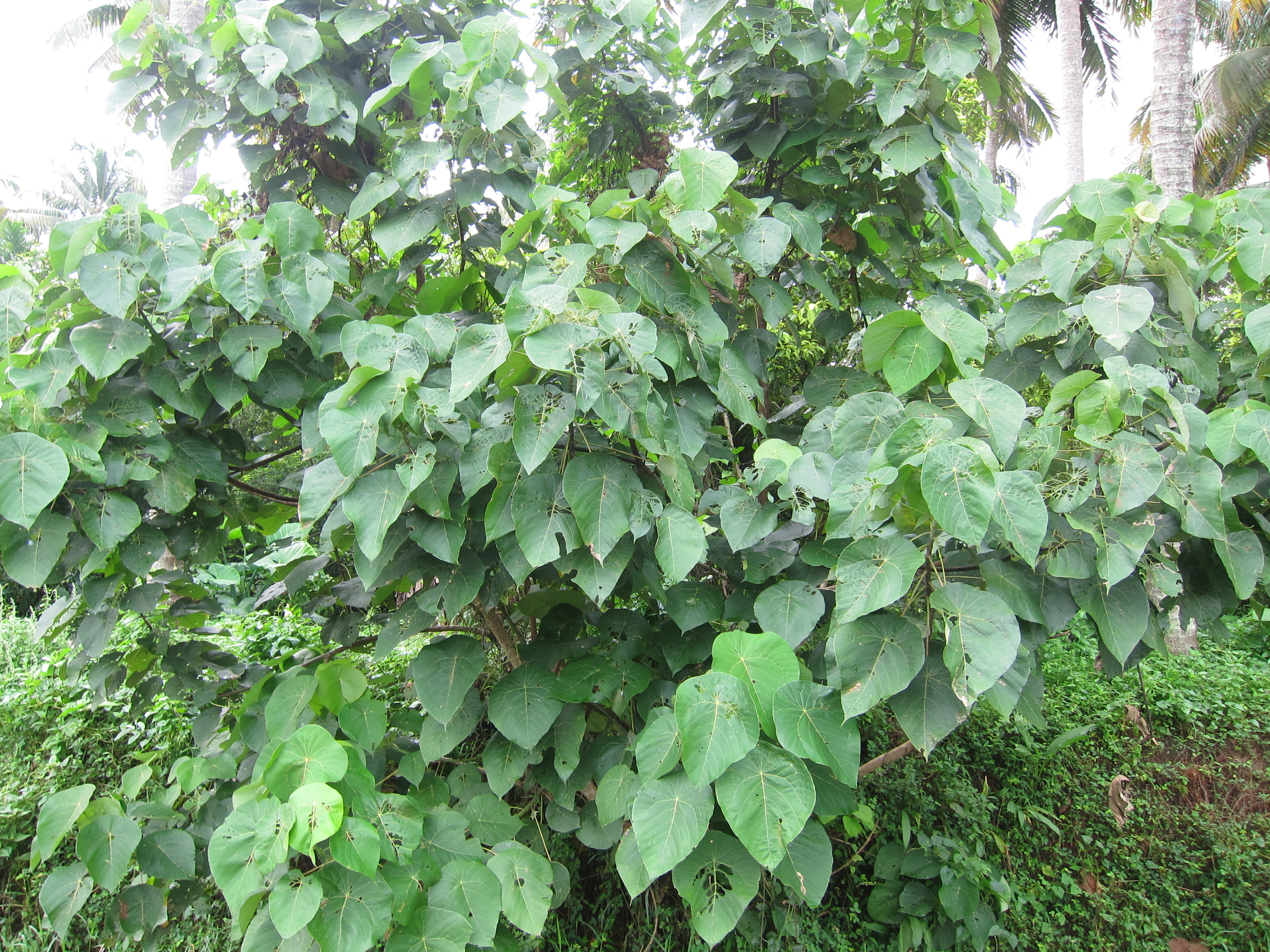 Macaranga Peltata Castor / Euphorbiaceae family വട്ട, വട്ടമരം, പൊടിഞ്ഞി, പൊടിഅയിനി, പൊടിയയിനി, വട്ടക്കണ്ണി, തൊടുകണ്ണി, ഉപ്പില, വട്ടക്കുറുക്കൂട്ടി